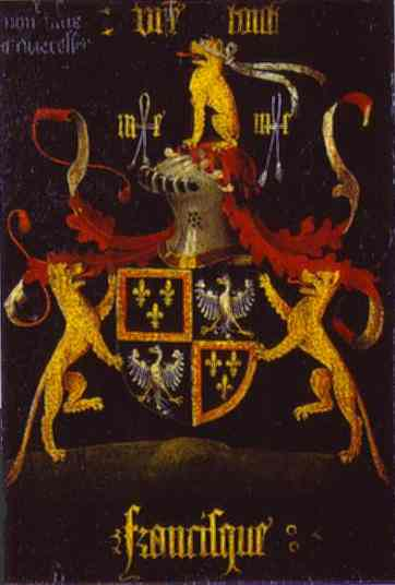 Francesco d'Este Coat of Arms. The reverse side of the Portrait of Francesco d'Este.